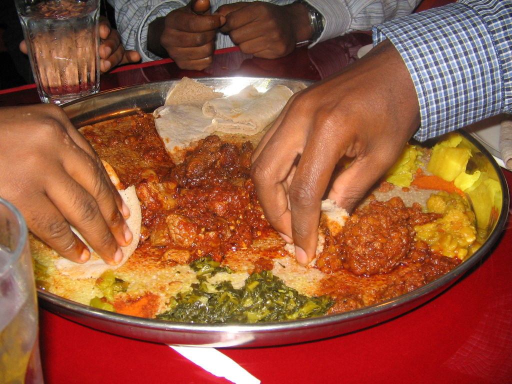 this is the beauty of eating ethiopian food...just grab it and put it in ur mouth...no cutting or mixing